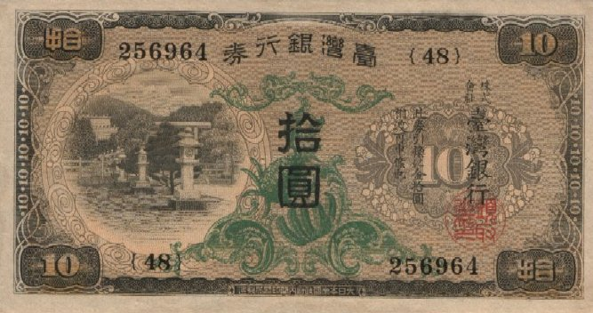 Taiwan (Japanese Colony) 1932 bank note - 10 Taiwan yen (back). (These notes must be distinguished from the one's the Kuomintang regime's Bank of Taiwan issued under the same English name from 1946.)